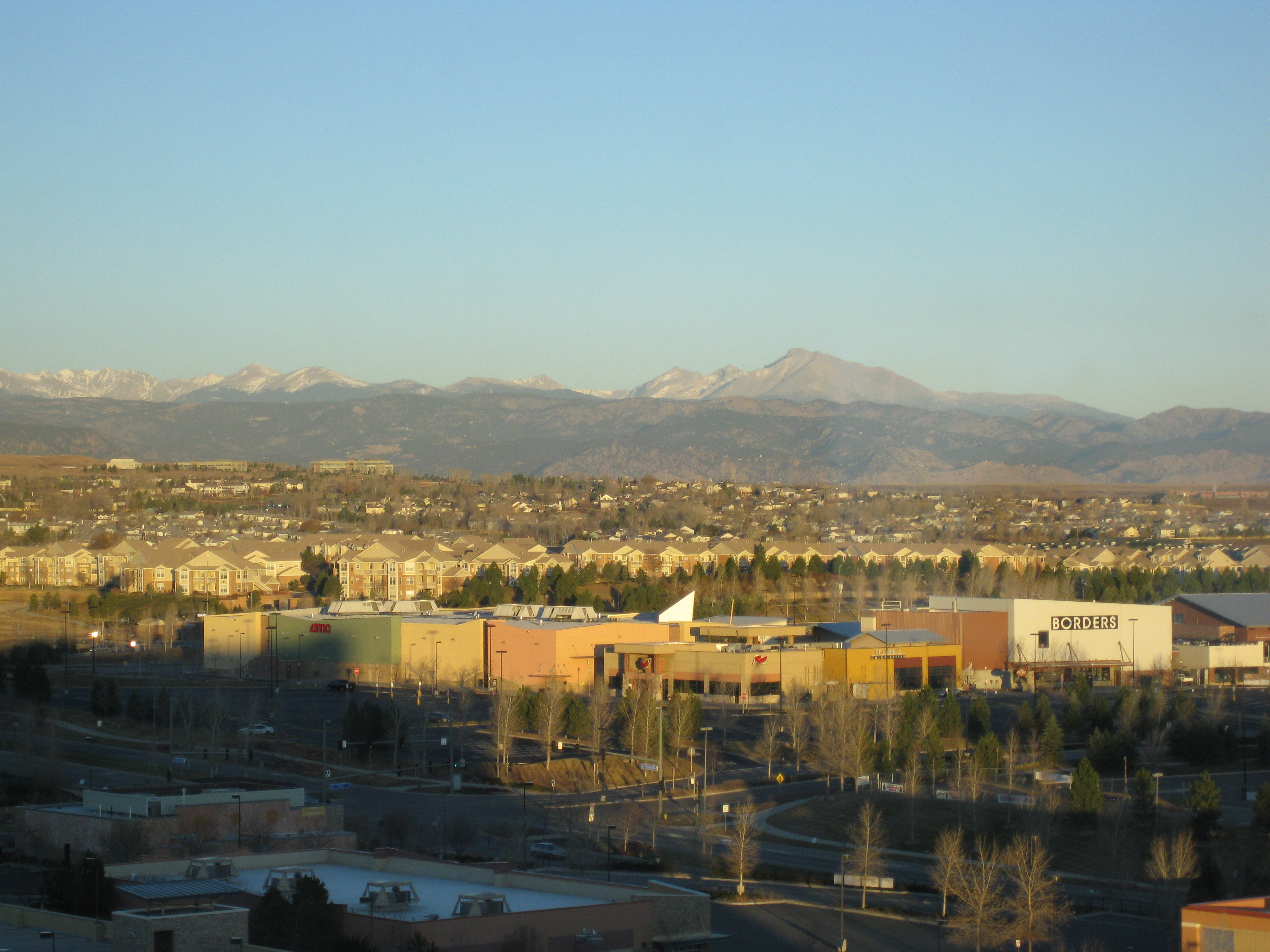 The Village at Flatiron Crossing Mall, Broomfield, Colorado with the Flatirons at Boulder and the Rocky Mountains in the background. Longs Peak is prominently featured. Viewed from the 8th floor of the nearby Renaissance Hotel looking approximately north west.